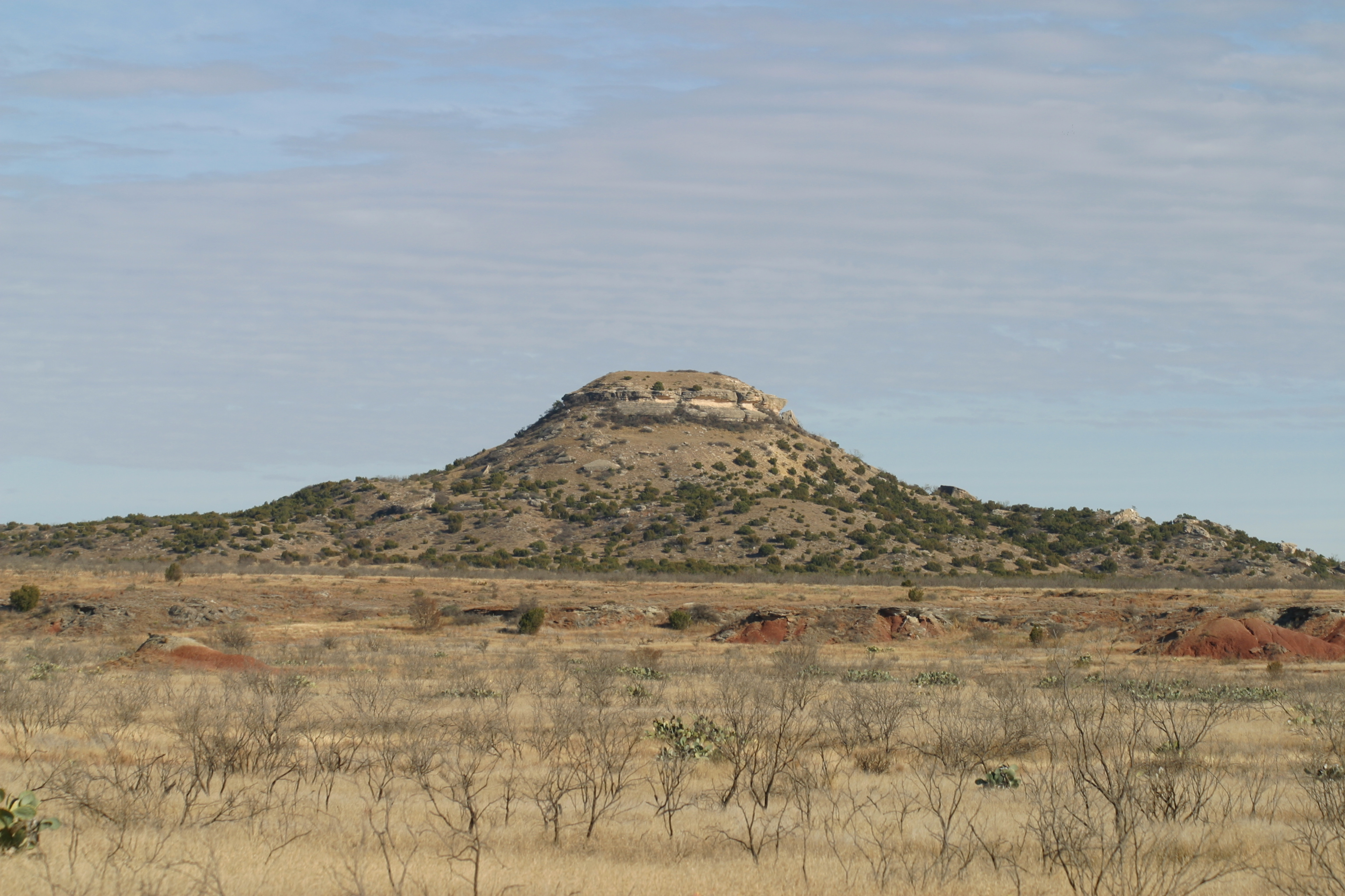 Mushaway Peak, a conspicuous butte and landmark, viewed from Willow Valley Road, Borden County, Texas.